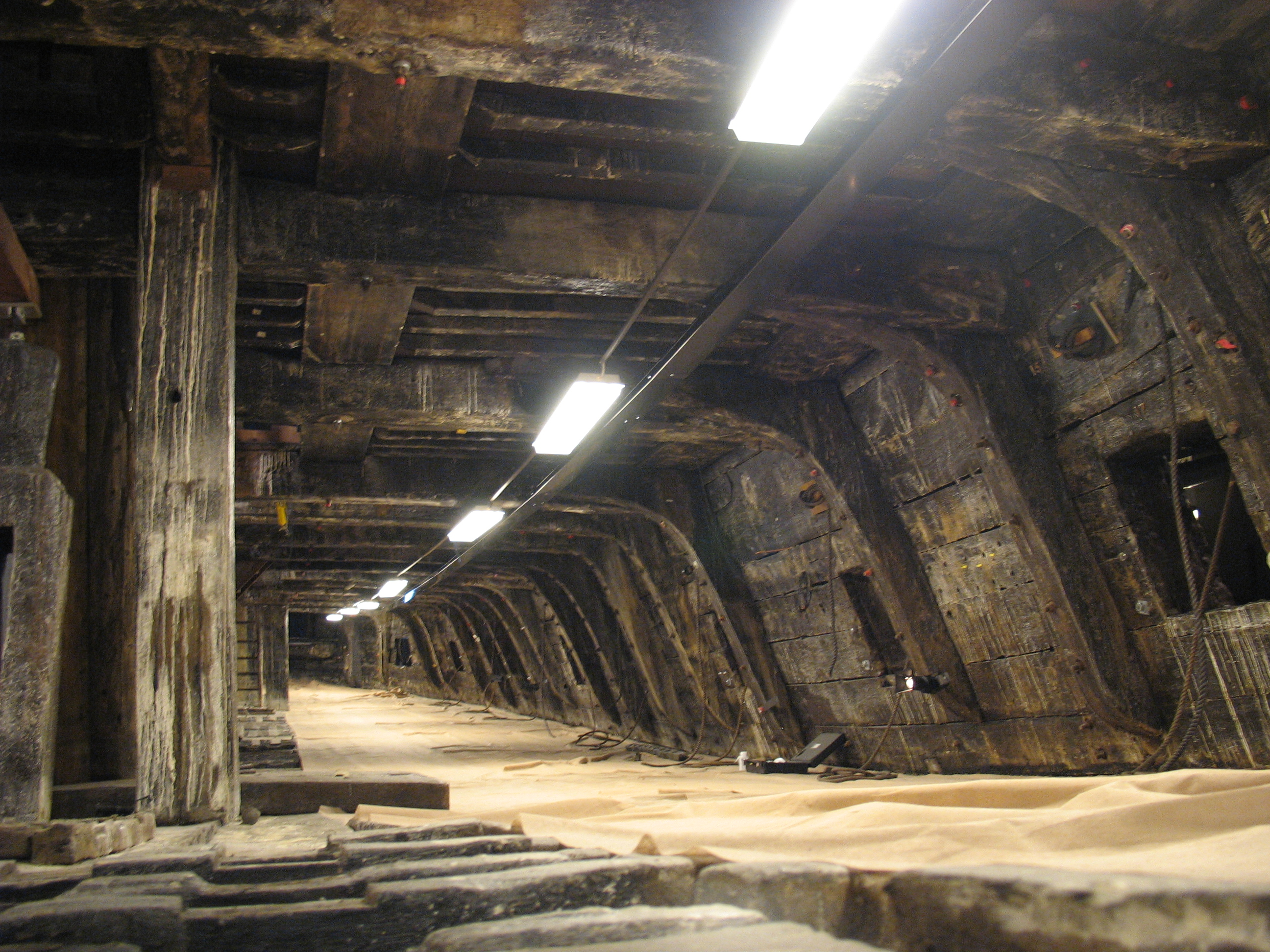 View of the upper gun deck of the warship Vasa, displayed in the Vasa Museum in Stockholm, Sweden. Picture taken inside the ship looking forward.